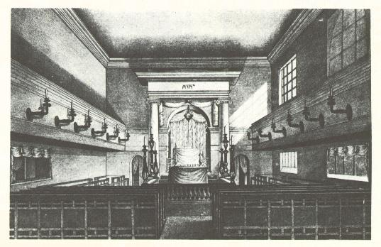 Interior of the temple of the Neuer Israelitischer Tempelverein in the courtyard at the intersection of Erste Brunnenstrasse and Alter Steinweg, built in 1818.